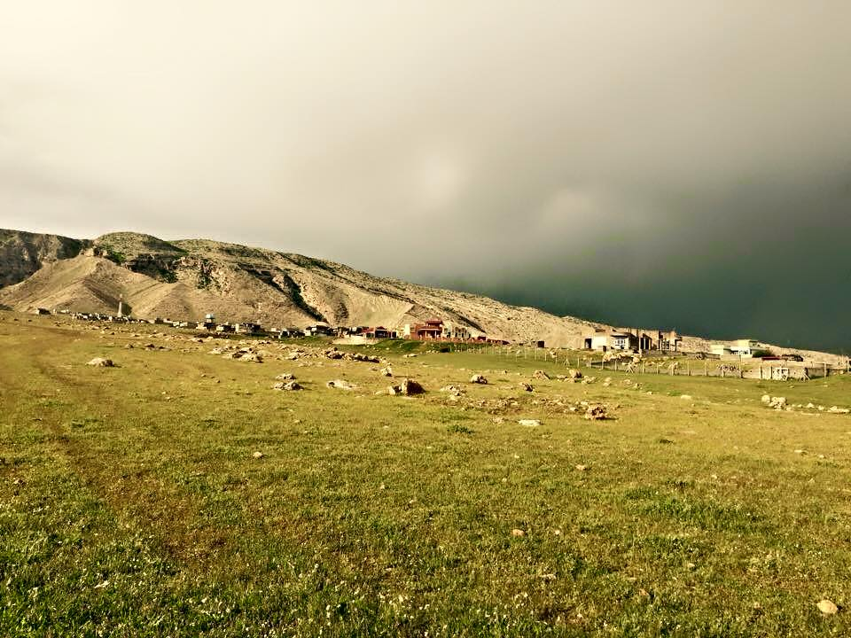 bozan village photo